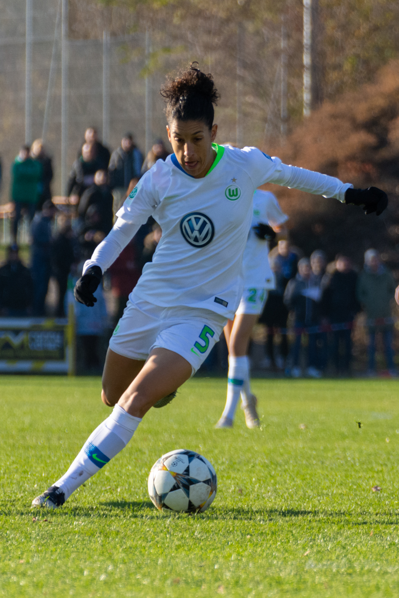 Cláudia Neto at FC Forstern vs VfL Wolfsburg